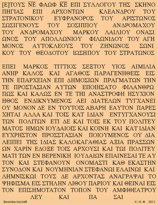 Honorific decree of the Jewish politeuma of Berenice (Libya) for Marcus Tittius Sexti